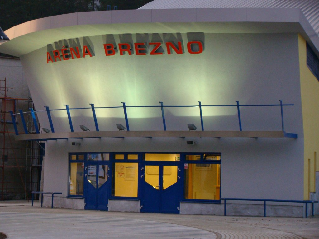 Aréna Brezno